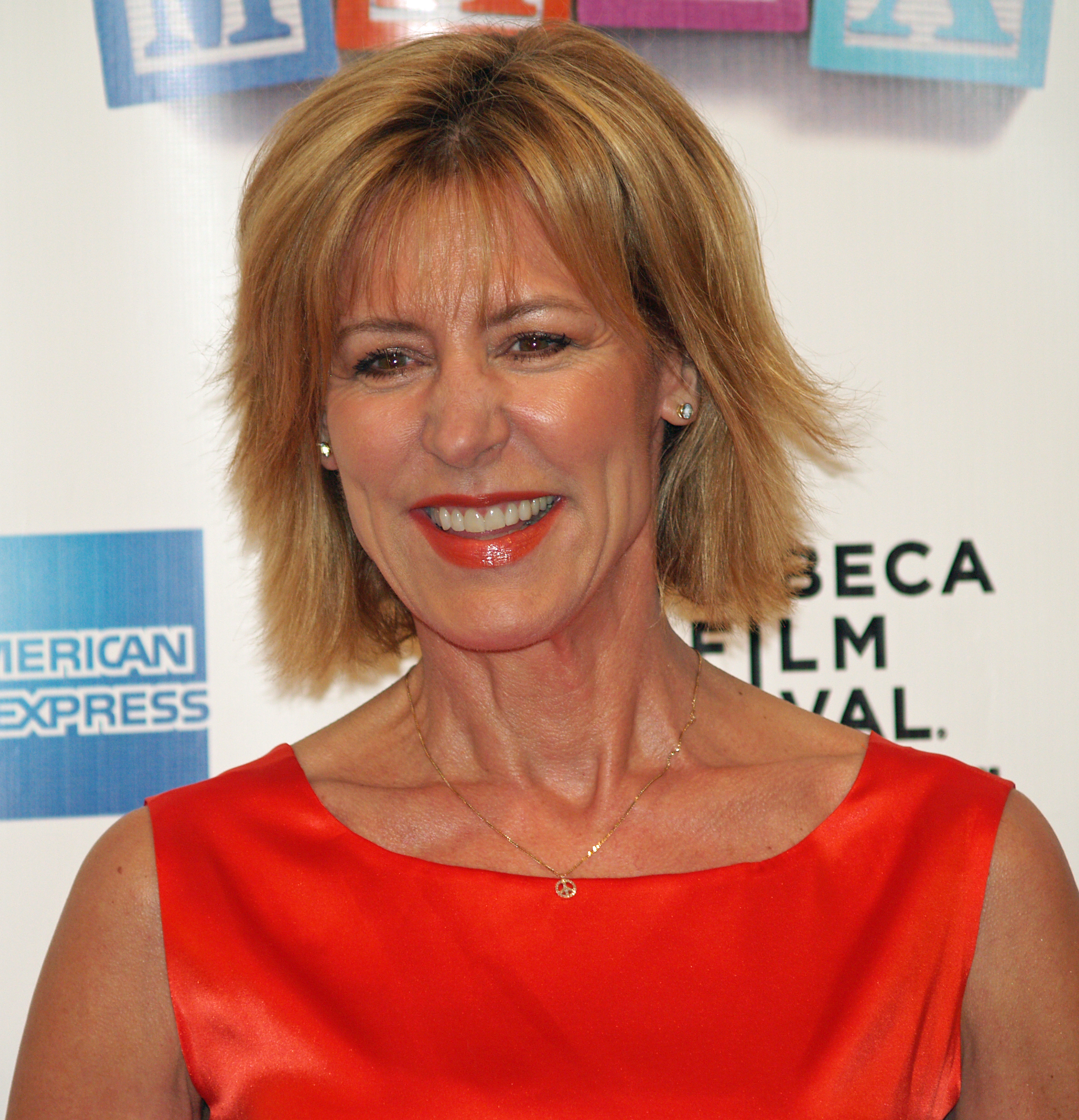 Christine Lahti at the premiere of Baby Mama at the 2008 Tribeca Film Festival.